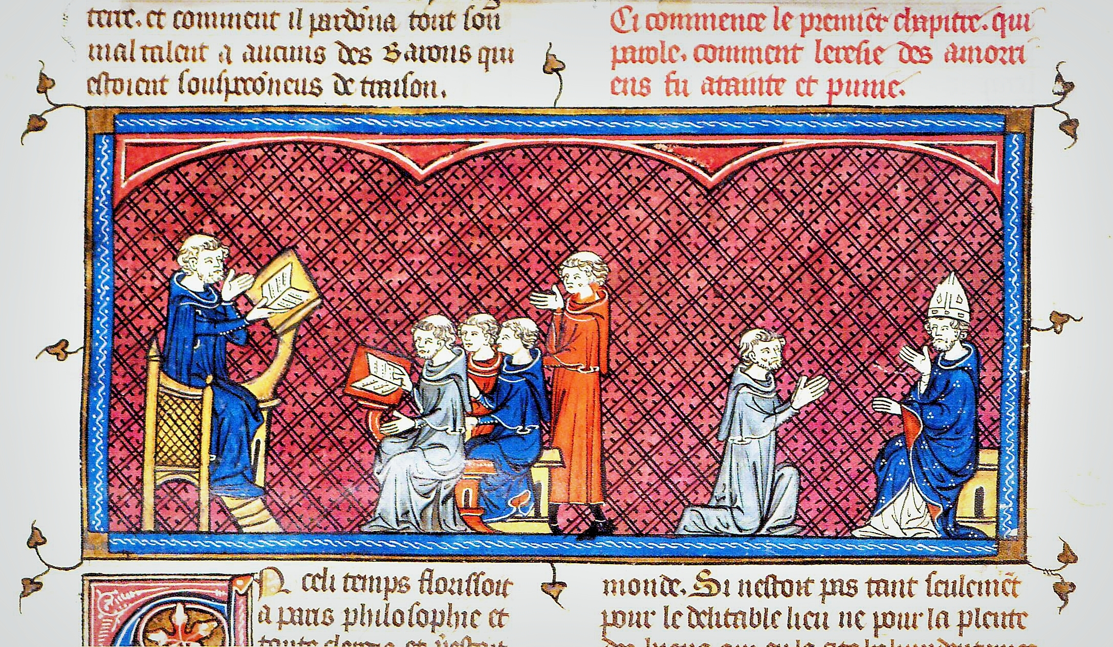 Amalric of Bena hears his sentence, Amalrich and Innocence II. In: Chroniques de France (sex. XIV), London, British Library, Royal 16 G. VI, f. 368v.